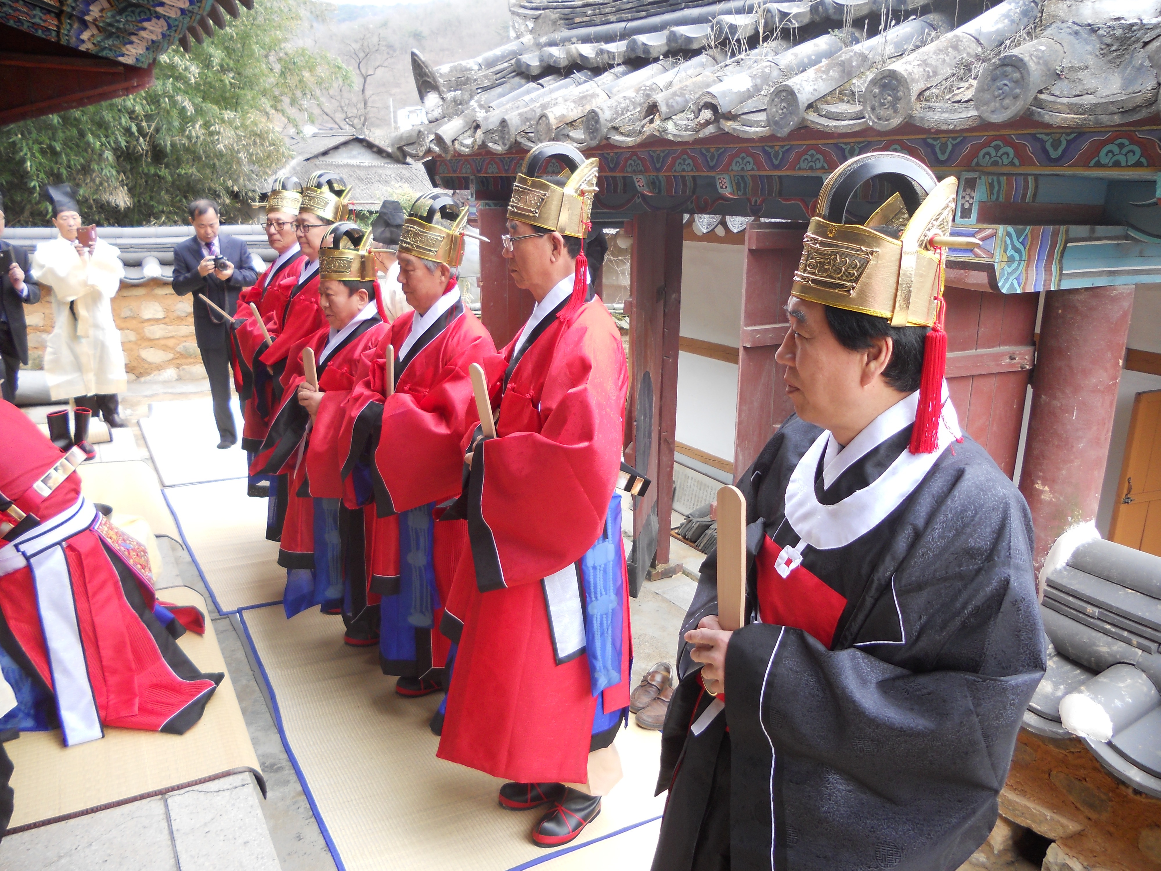 Photo taken on March 20, 2016 during the Chunbun Ancestral Rite held in the Balhae Village.